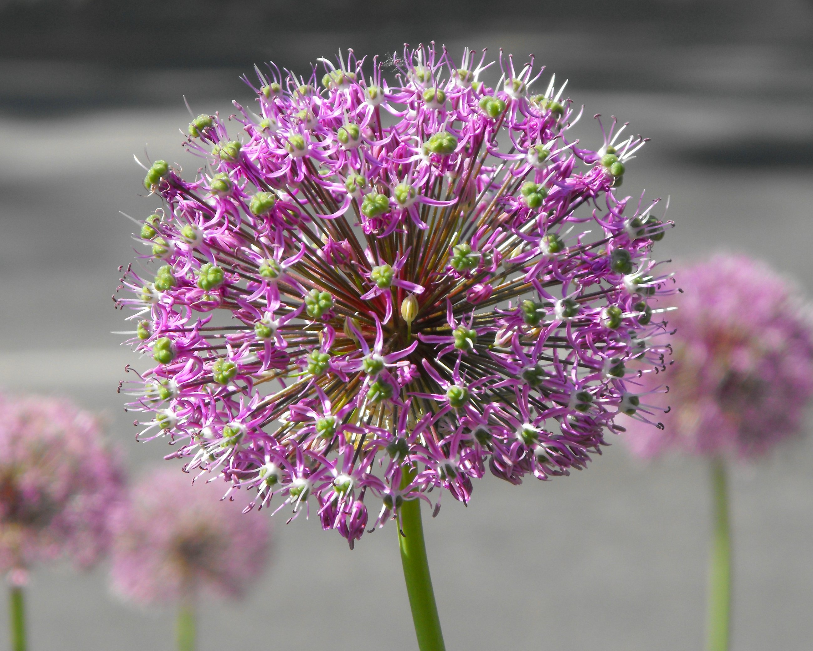 Purple Sensation (Allium aflatunense) in the downtown of Makó, Hungary.